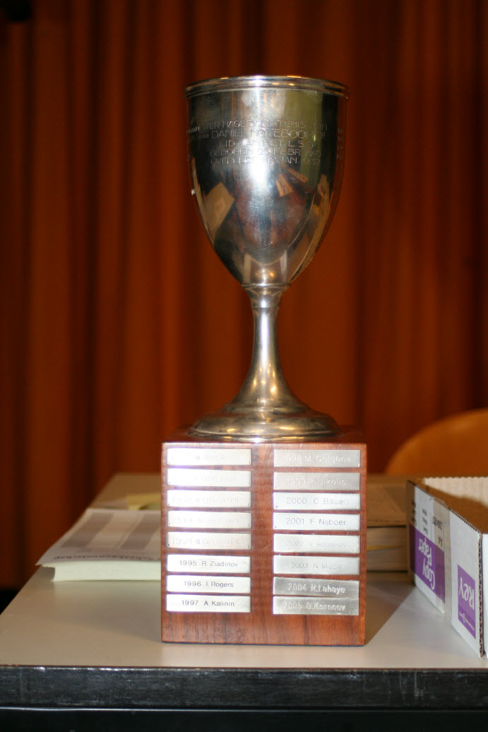 Noteboom Cup - Chess tournament Daniel Noteboom Leiden the Netherlands